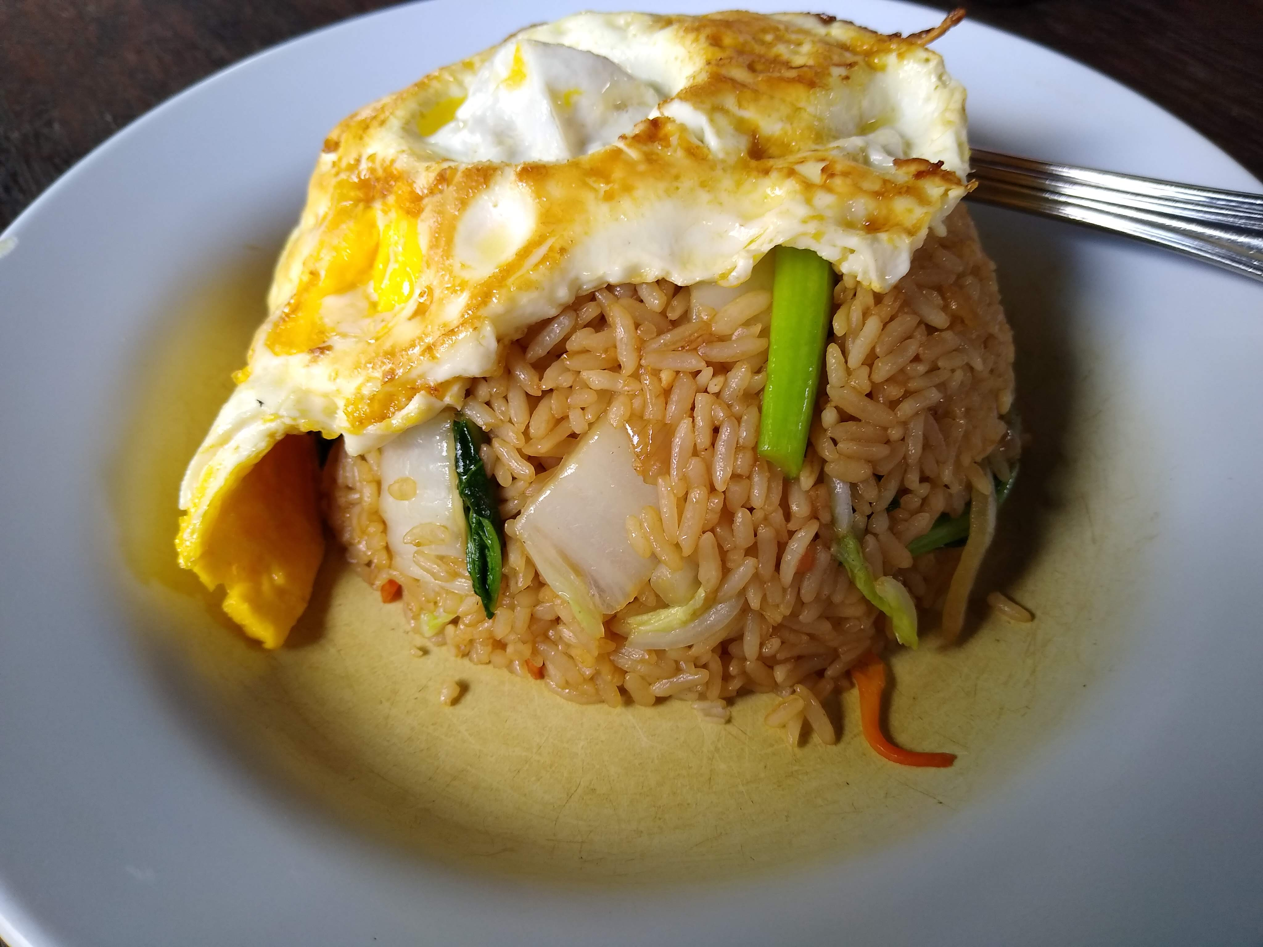 Vegetarian Nasi Goreng at Naughty Nuri's in Ubud, Bali.